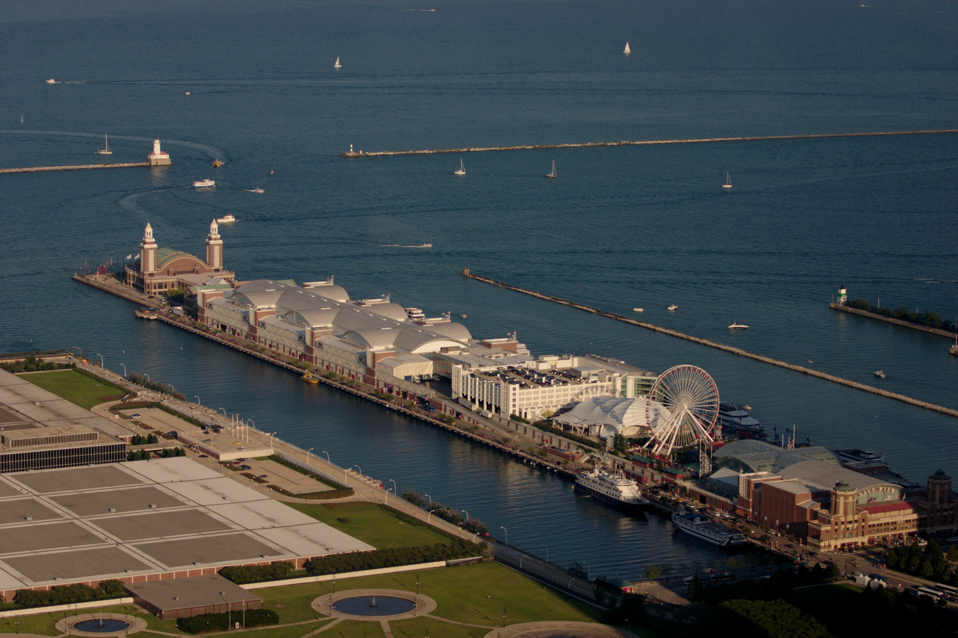 View of Navy Pier at dusk from the John Hancock Center